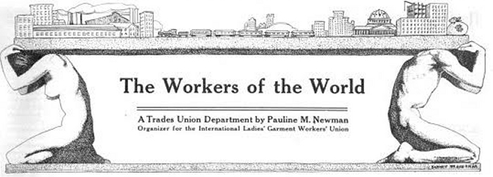 Workers of the World column in The Progressive Woman, August 1912. Artwork signed by Barney Braverman.